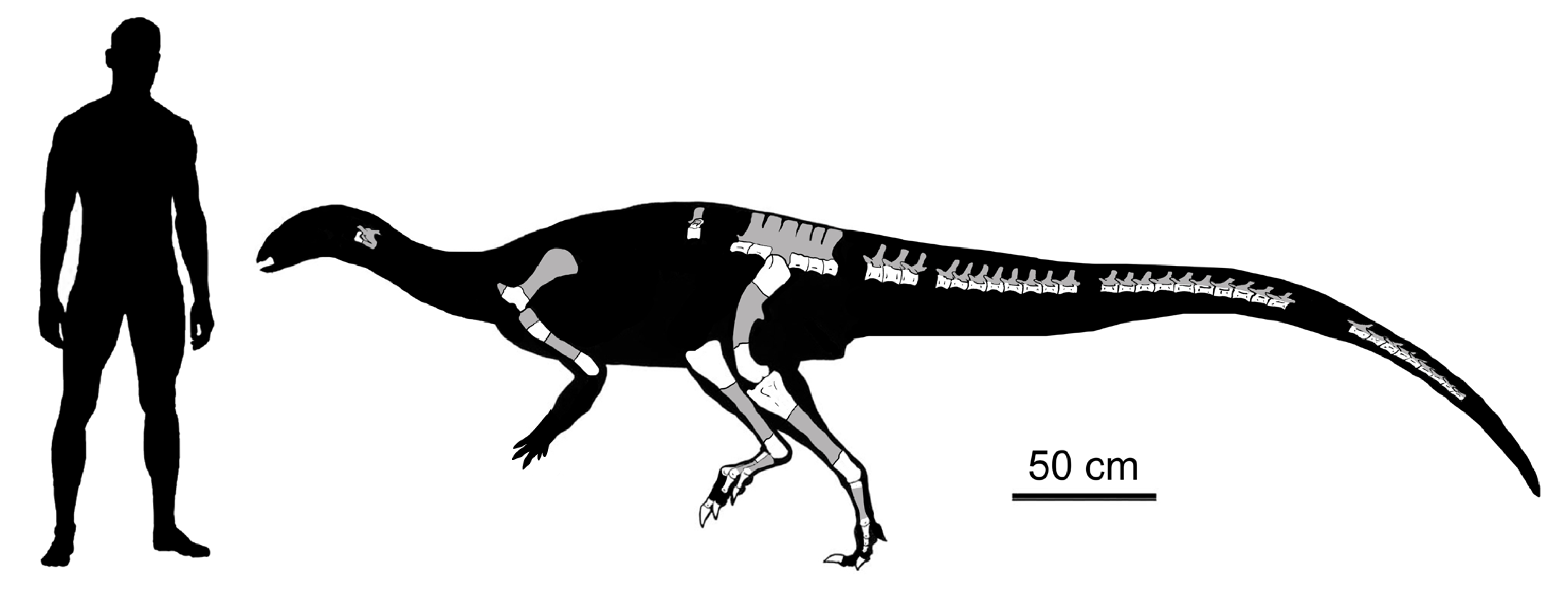 Skeeltal reconstruction of Isasicursor, with known remains shown in white and reconstructed in grey